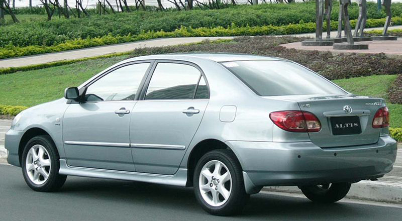 2006 Toyota Corolla Altis (LED)